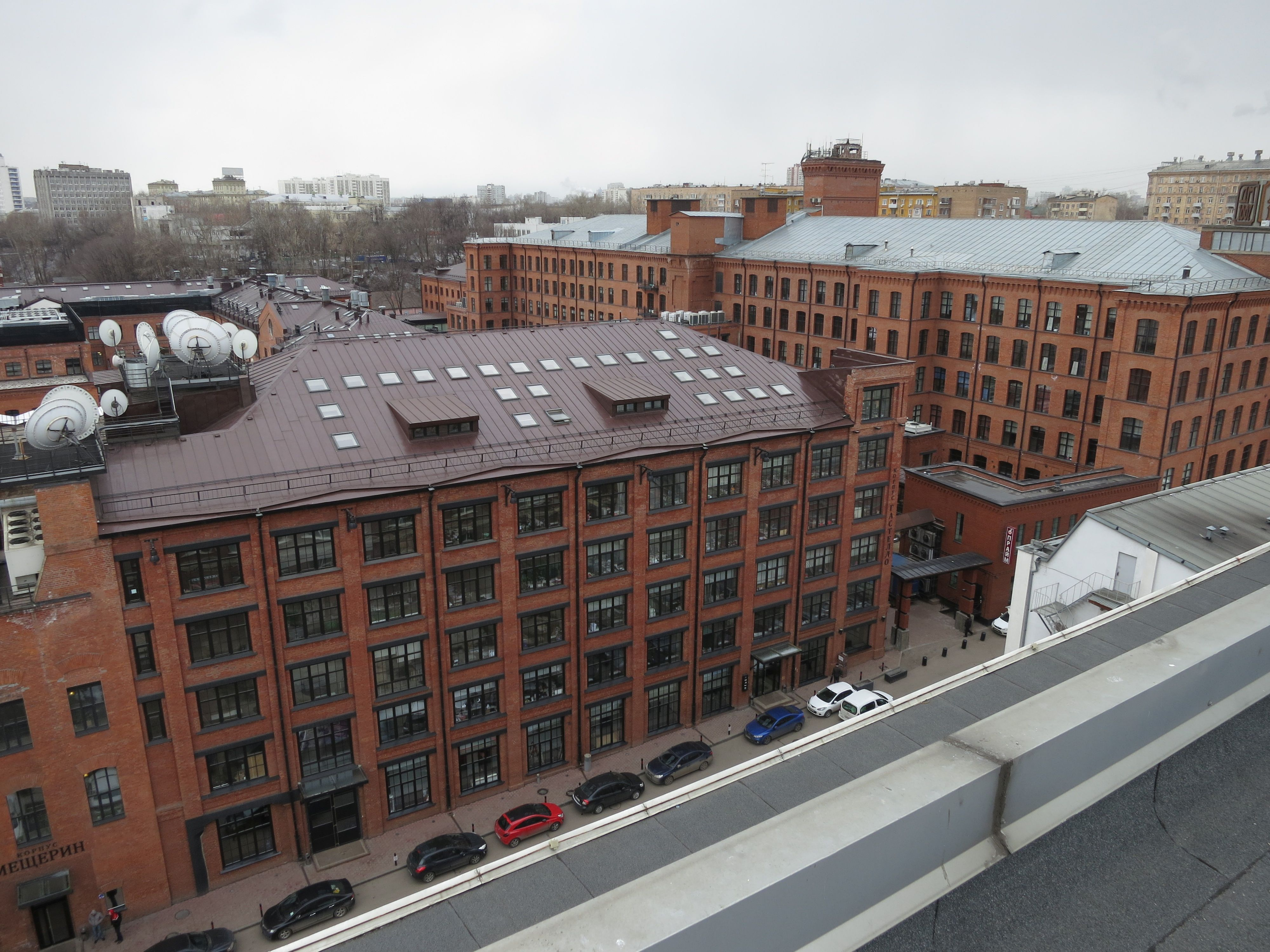 Новоданиловская набережная, Москва